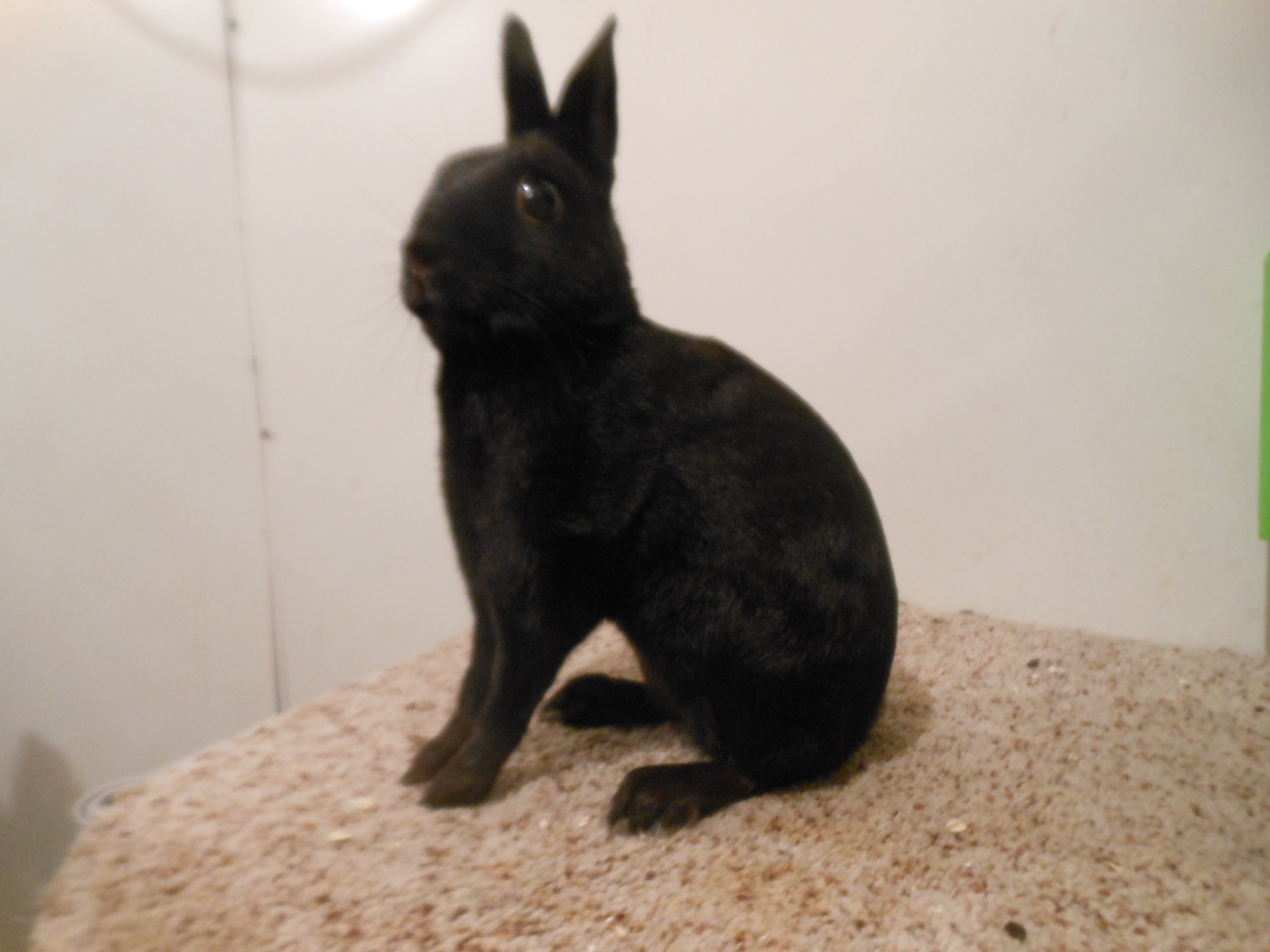 Black Britannia Petite Rabbit